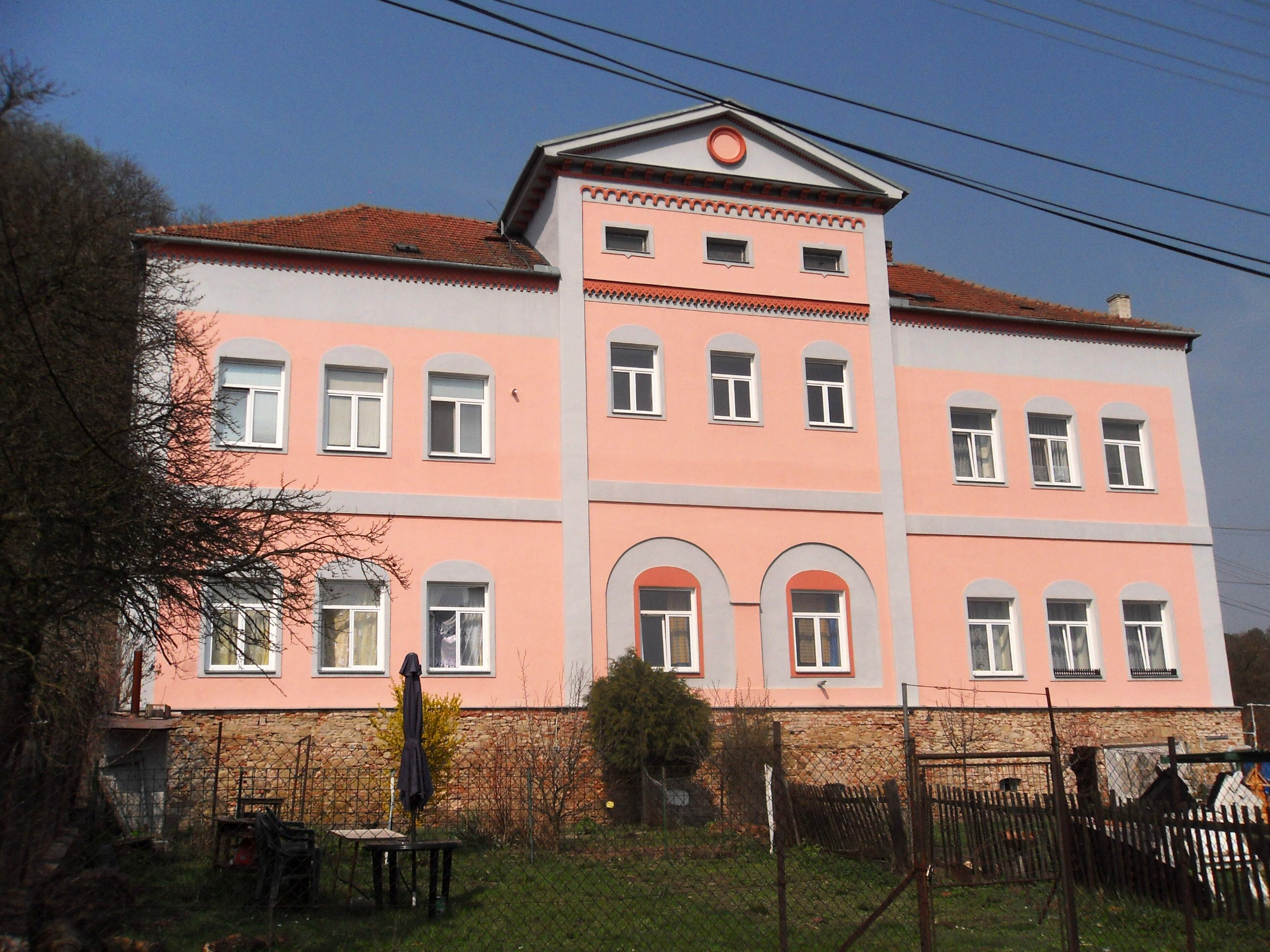 Former Herring coal mine, Zastávka, Brno-venkov District, Czech Republic